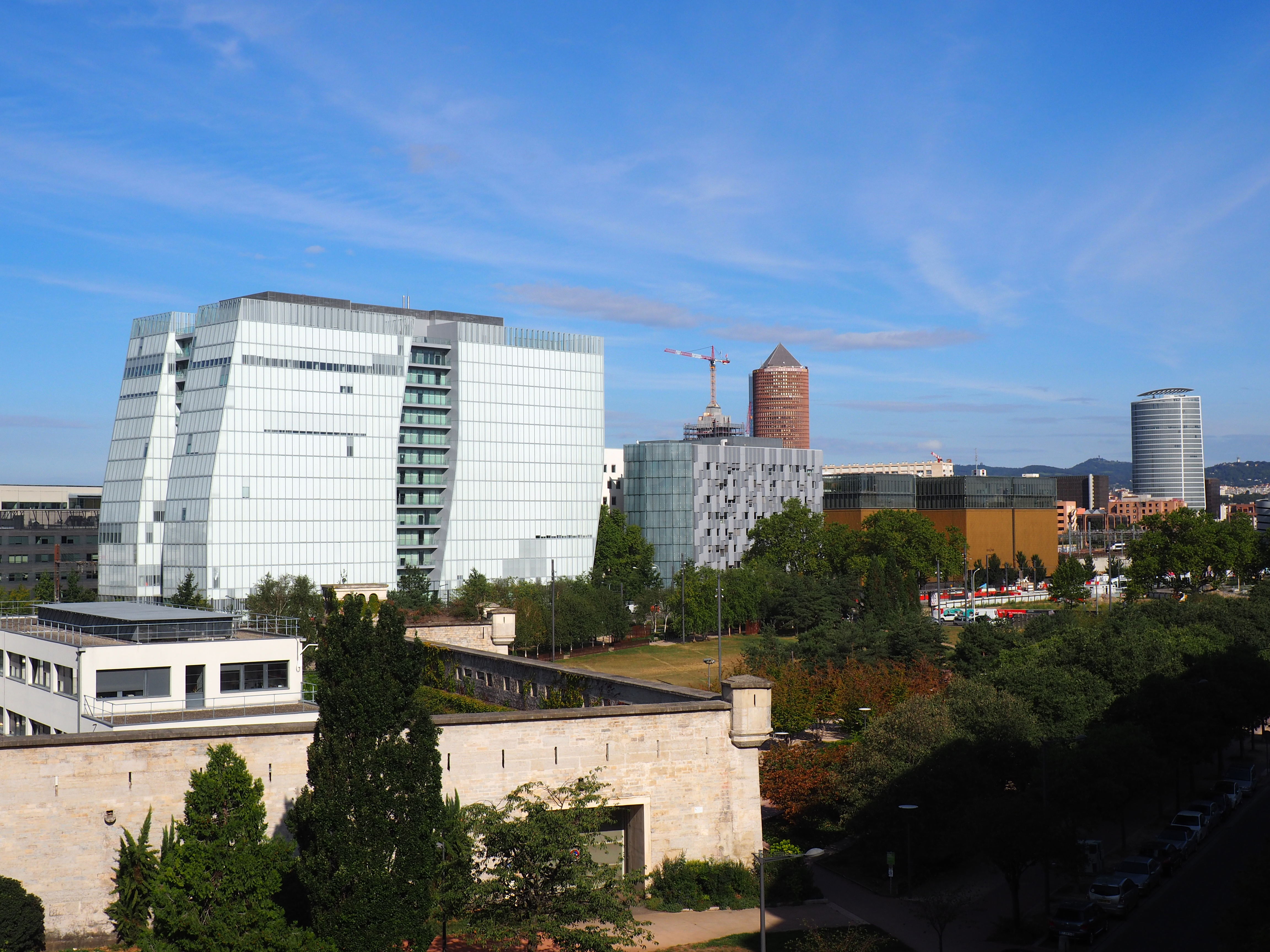 Part of skyline in the district of La Part-Dieu in Lyon